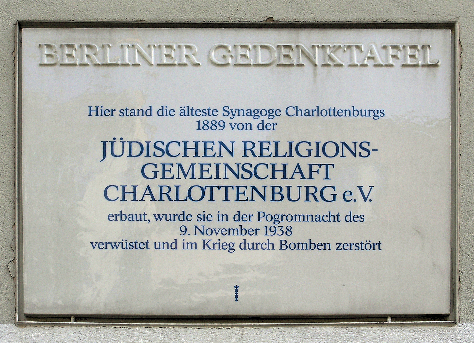 Berlin memorial plaque, Synagoge Charlottenburg, Behaimstraße 11, Berlin-Charlottenburg, Germany